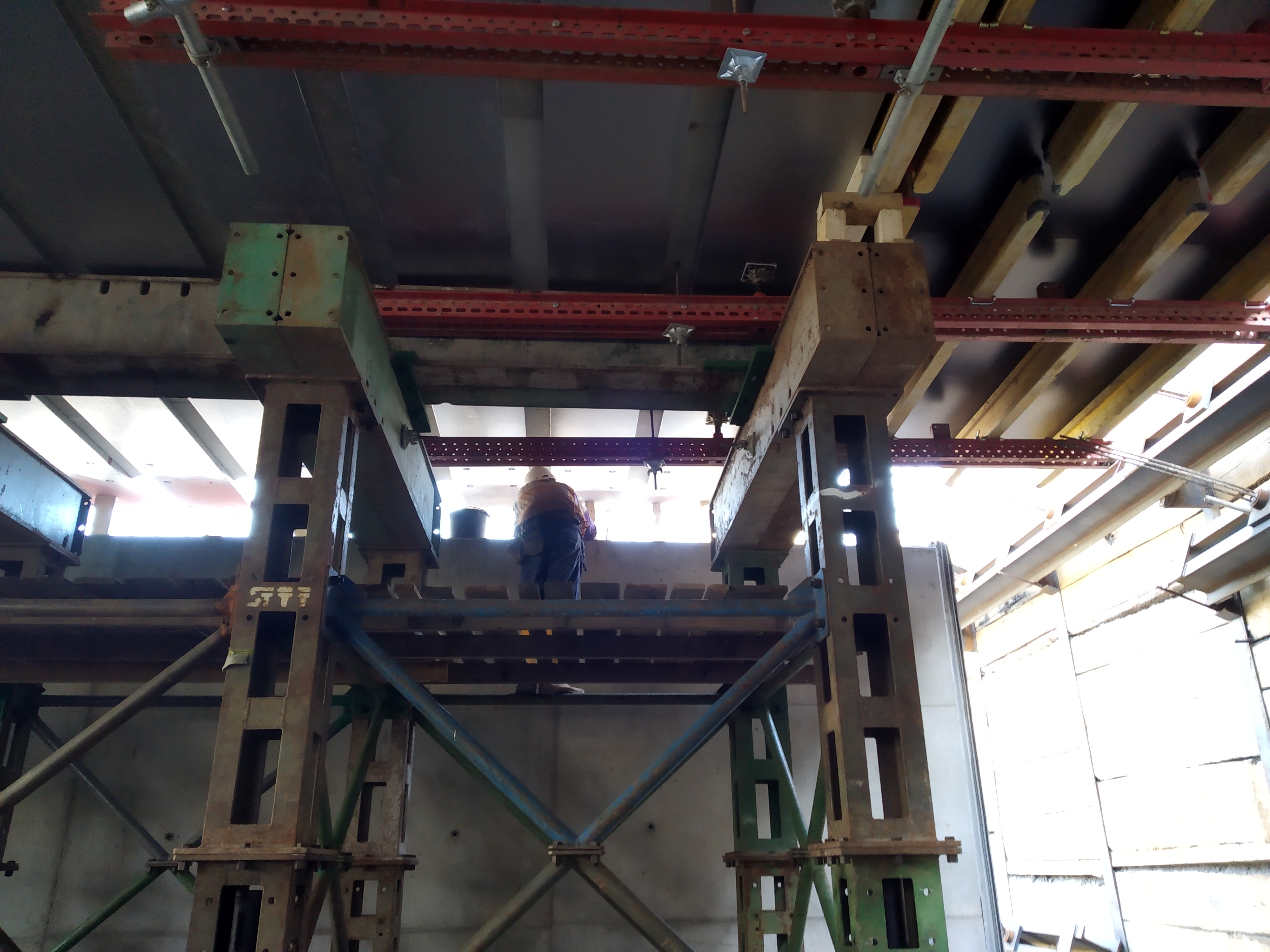 Construction of the mixed-structure railway bridge over V korytech street in Prague